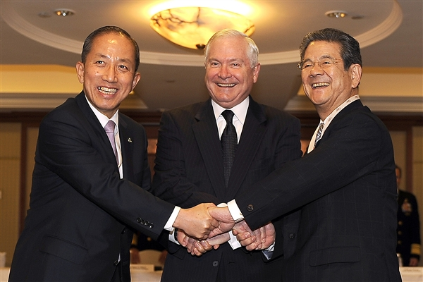 South Korean Defense Minister Kim Tae-young, Visiting of the U.S.A.